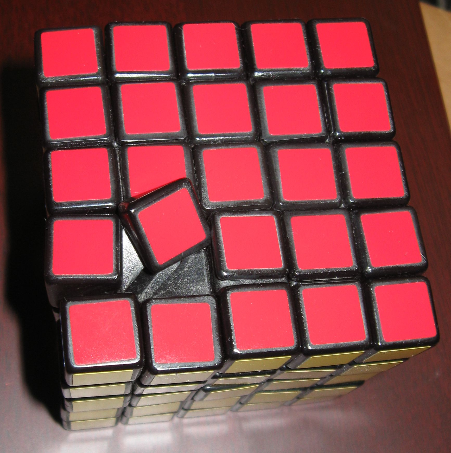 An official Professor's Cube displaying one of the drawbacks of its design, namely easily misaligned diagonal center pieces.